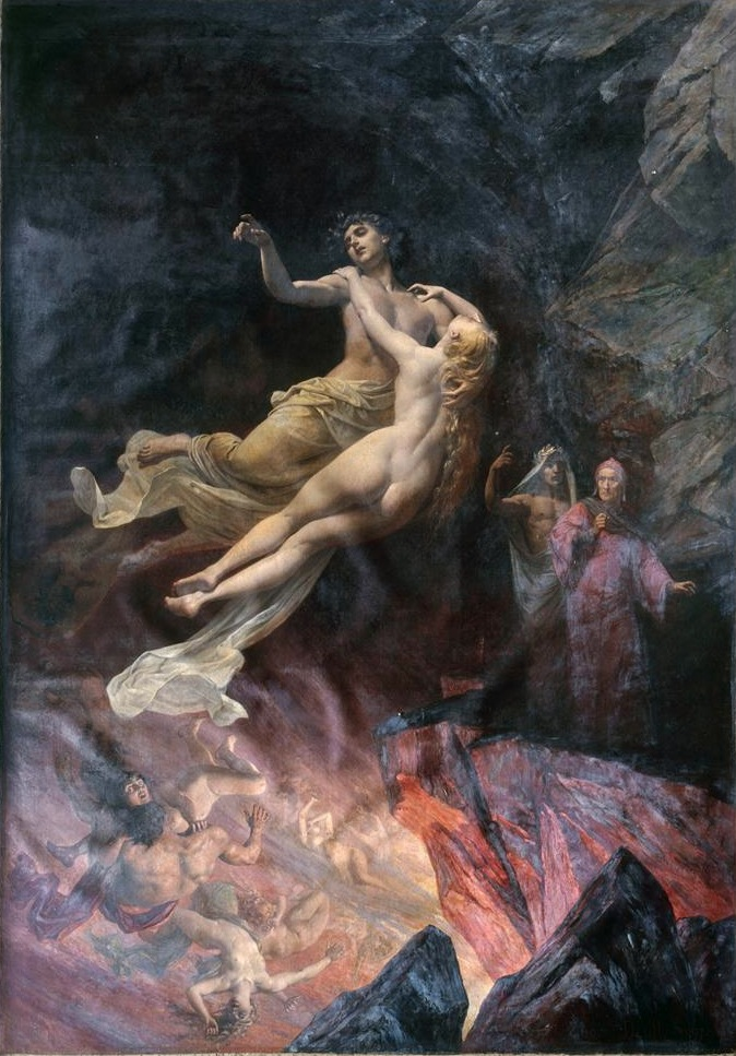 Eugène Auguste Francois Deully, Dante et Virgile aux Enfers (Salon of 1897, #531, Palais des Beaux-Arts, Lille), originally exhibited as Françoise de Rimini (Paolo et Francesca aux Enfiers). (see in Google Books: "Studies in Medievalism, Volume 18", D.S. Brewer, 2009, p. 139)